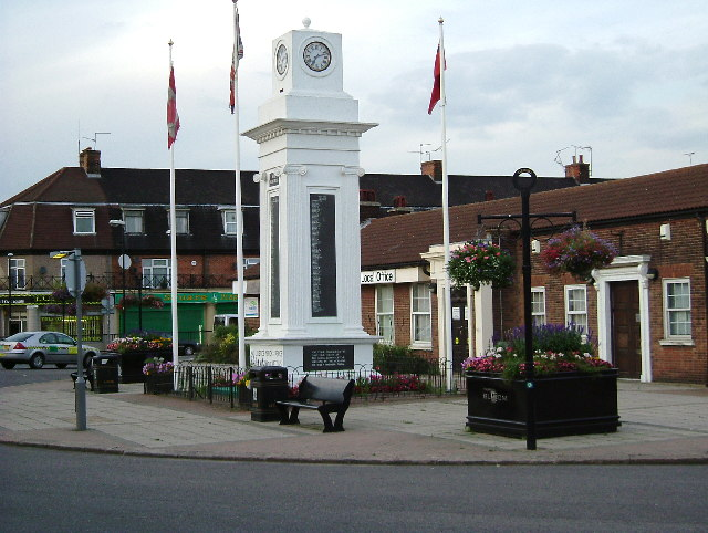 Tilbury Civic Square and War Memorial. The buildings to the left are Thurrock Council offices. The square also boasts the fire station police station and a sports centre. The war memorial inscription reads "May Justice Mercy & Peace Prevail Amongst Nations". I will second that, there is nothing glorious about being dead in my opinion.